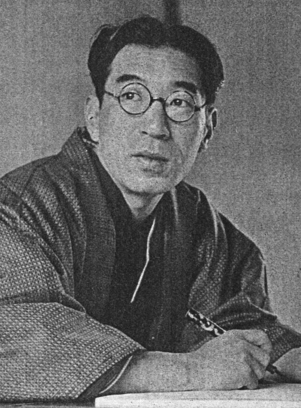 Photograph of the screenwriter Tadao Ikeda